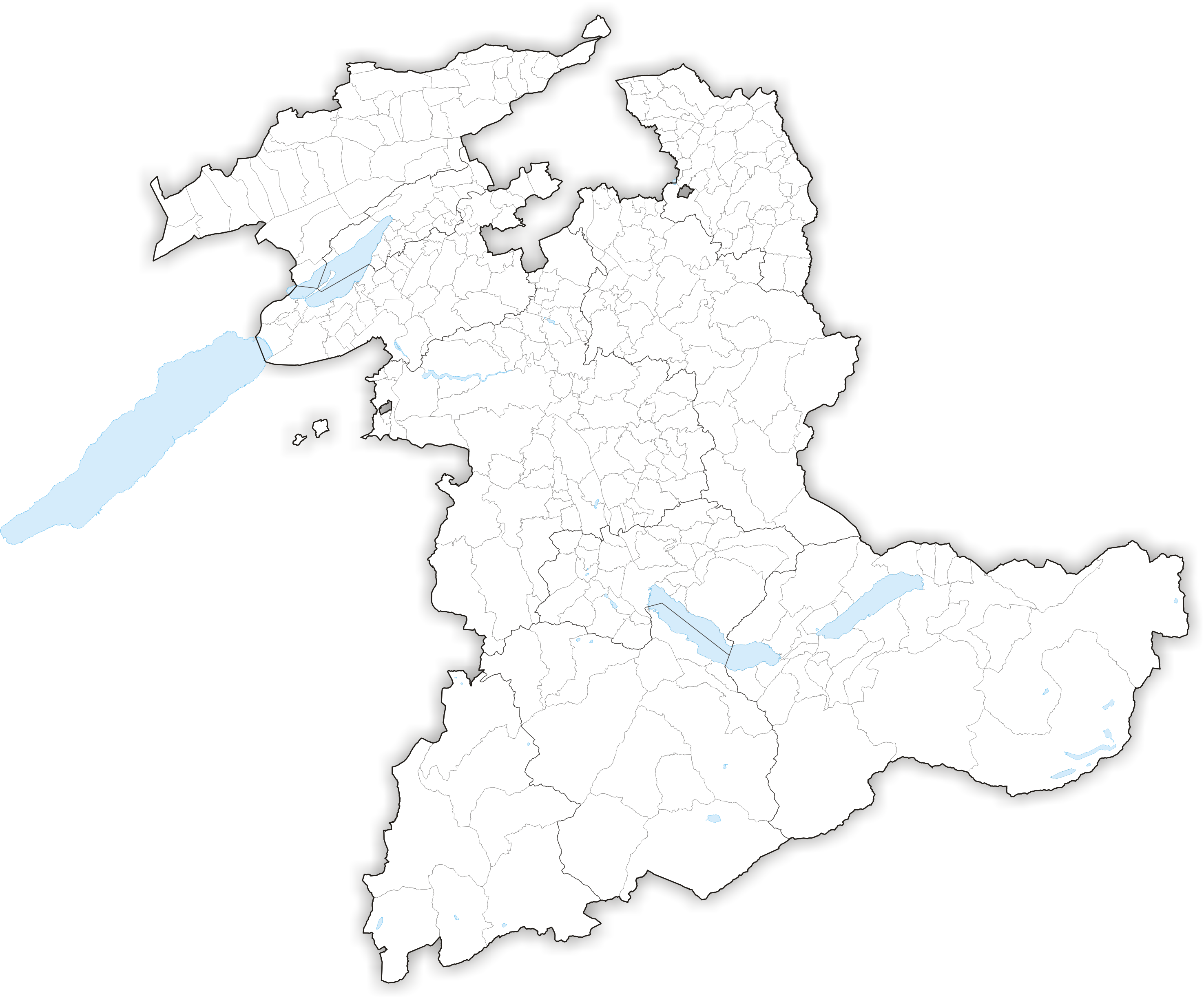 Municipalities in Canton Bern